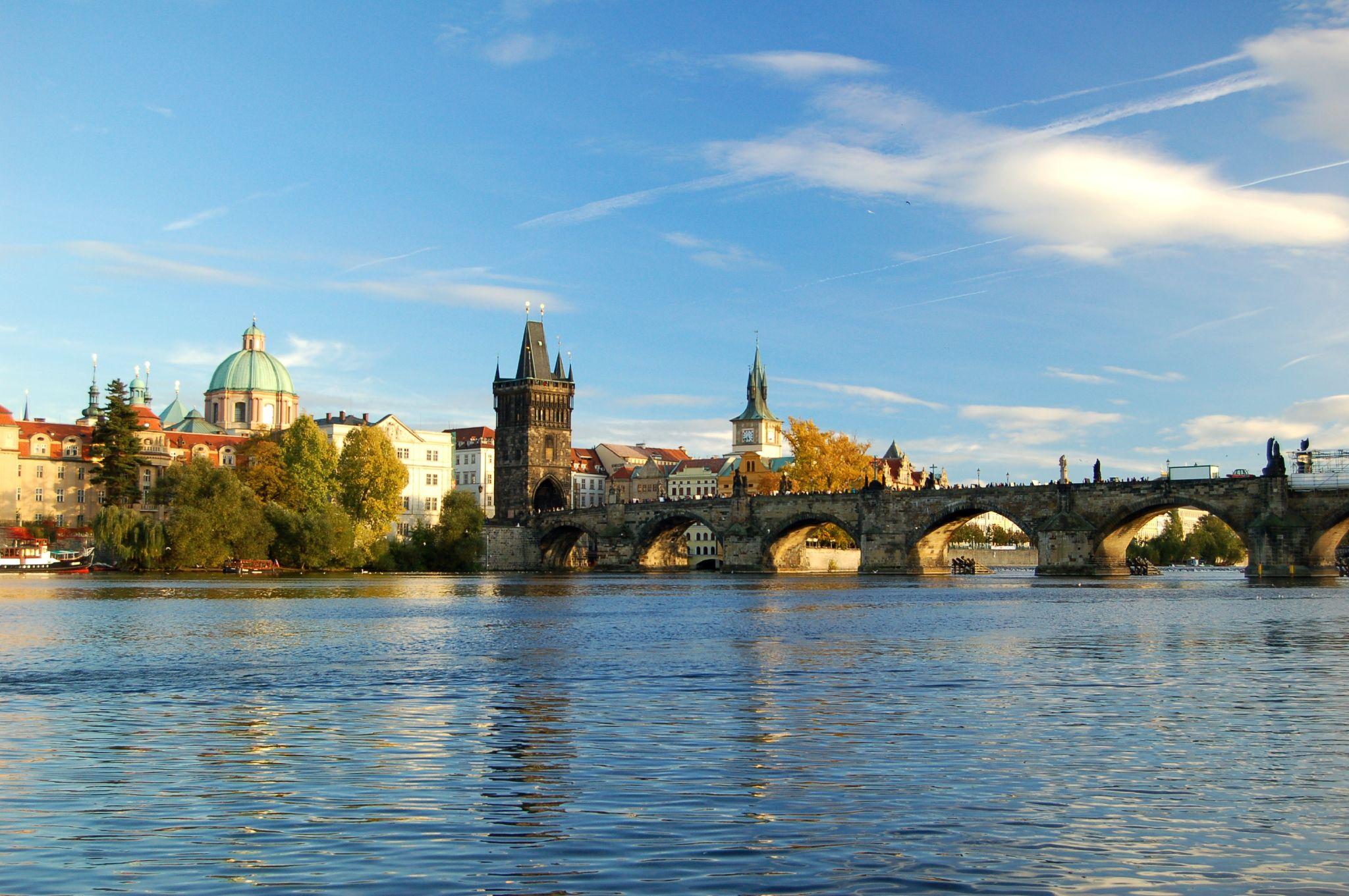 Charles Bridge in Prague